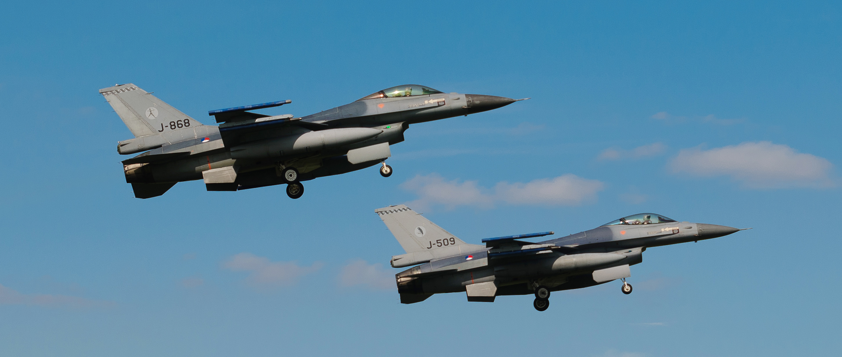 Air Power Demo. 8 Vipers taking off in pairs.